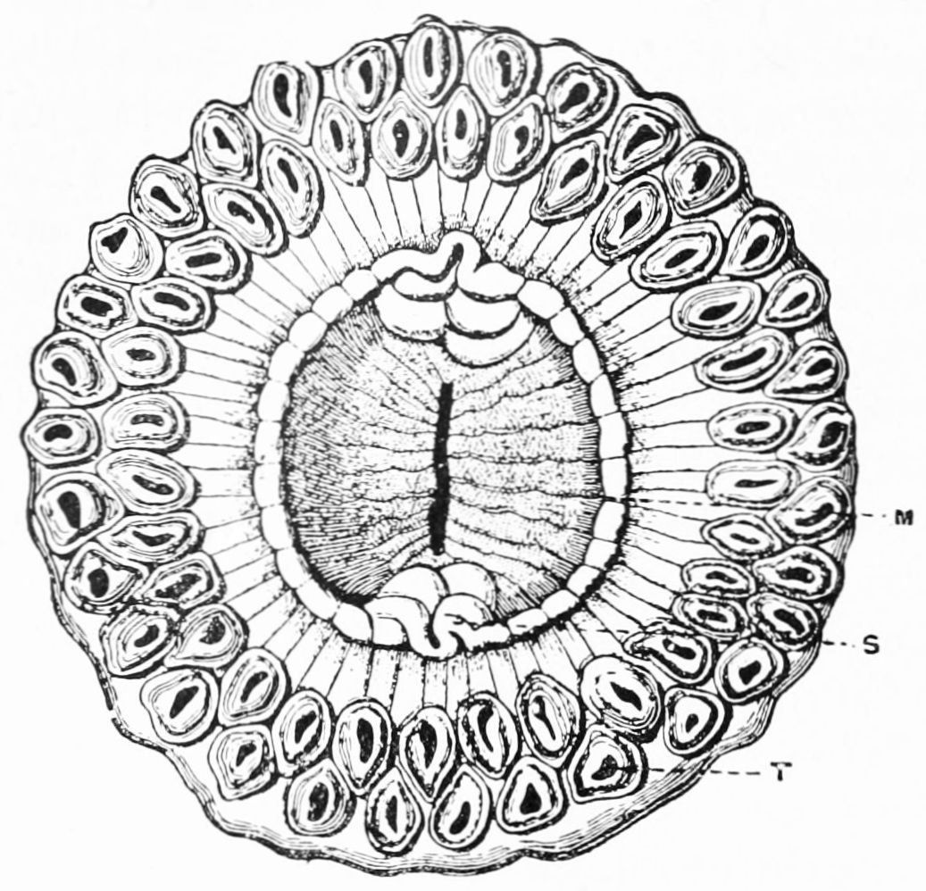 Sicyonis crassa